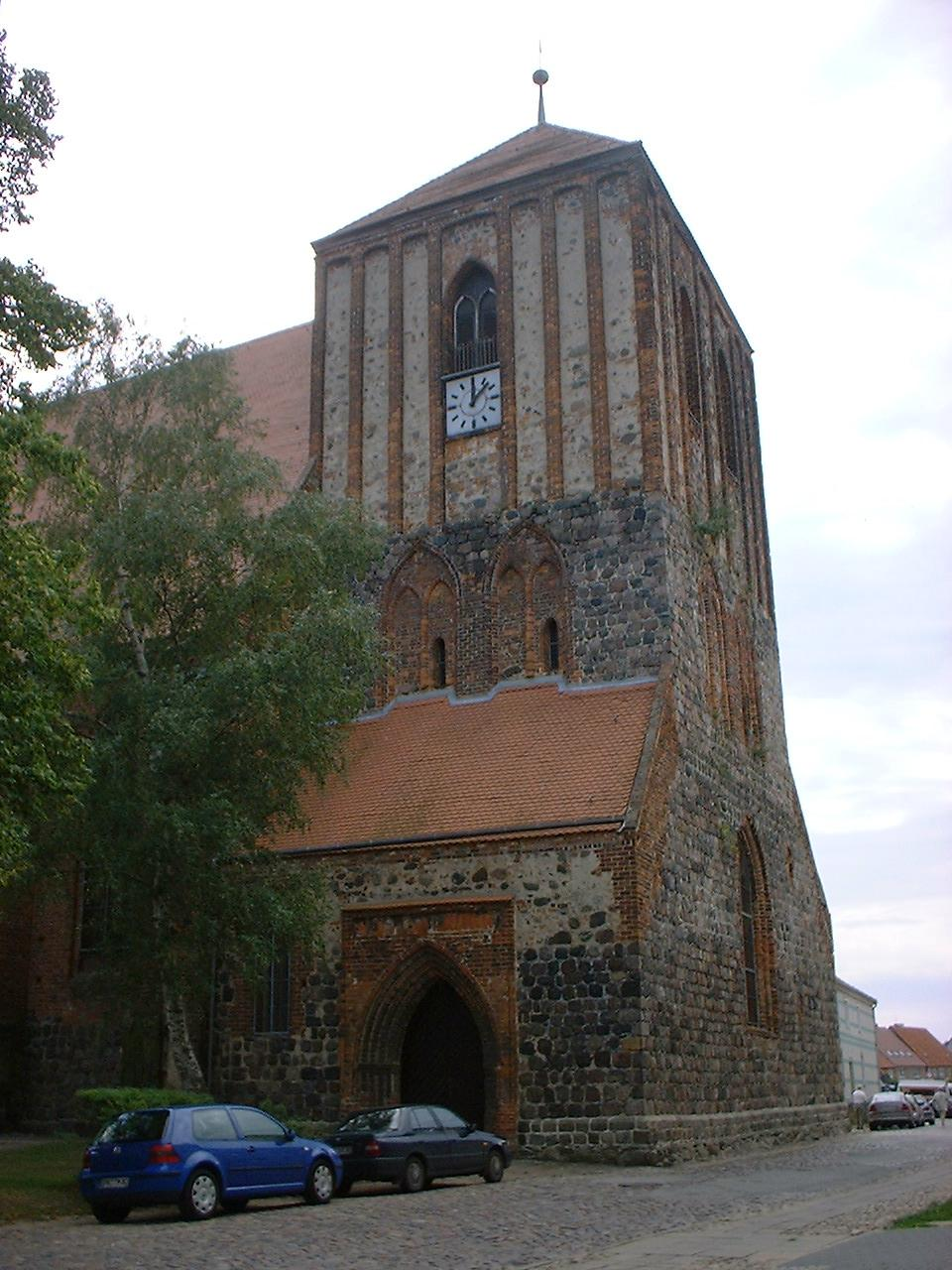 Church in Wusterhausen in Brandenburg, Germany